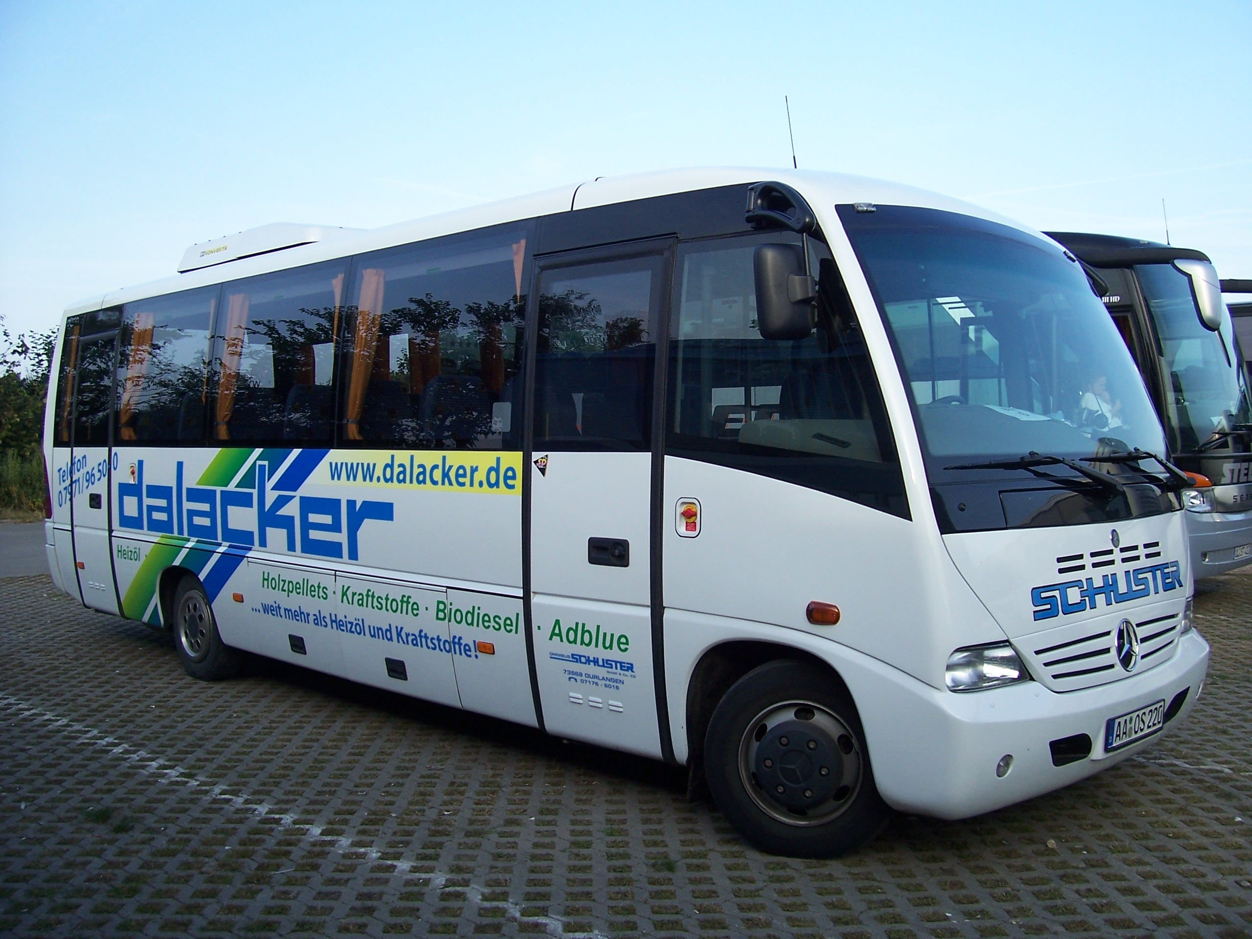 A Mercedes-Benz Medio bus in Mannheim, Germany